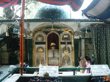 The Main Bi Bi Pak Daman Shrine. Picture taken by Pale blue dot on June 5, 2004.